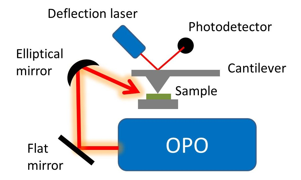 Schematic of AFM-IR (atomic force microscope-infrared spectroscopy) using an optical parametric oscillator as a infrared light source